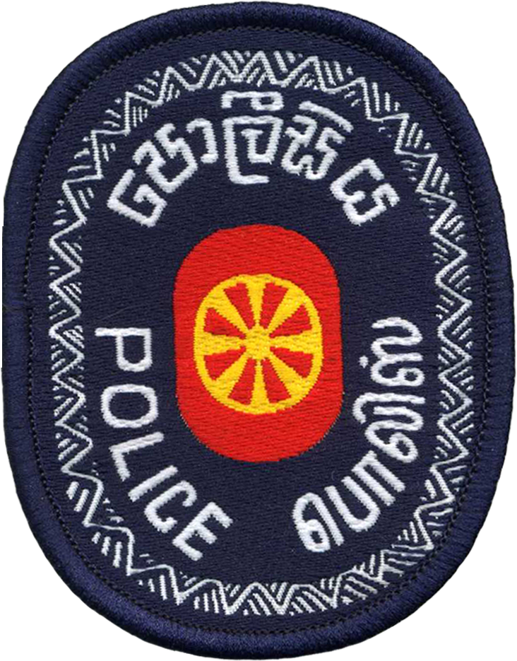 Patch worn on Police of Sri Lanka uniforms, note 3 languages